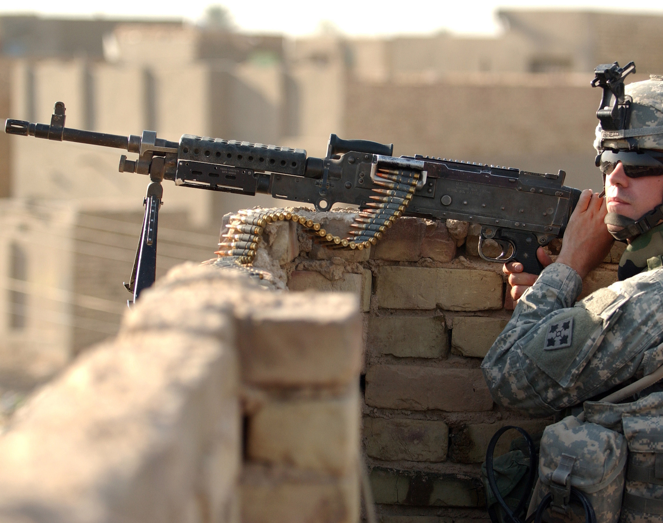 U.S. Army Spc. Eric Leon stands security watch with an M-240B machine gun during a cordon and search operation with Iraqi army soldiers in Diwaniyah, Iraq, Sept. 16, 2006. Leon is with 1st Platoon, Alpha Company, 1st Battalion, 8th Infantry Regiment, 2nd Brigade Combat Team. DoD photo by Tech. Sgt. Dawn M. Price, U.S. Air Force. (Released)